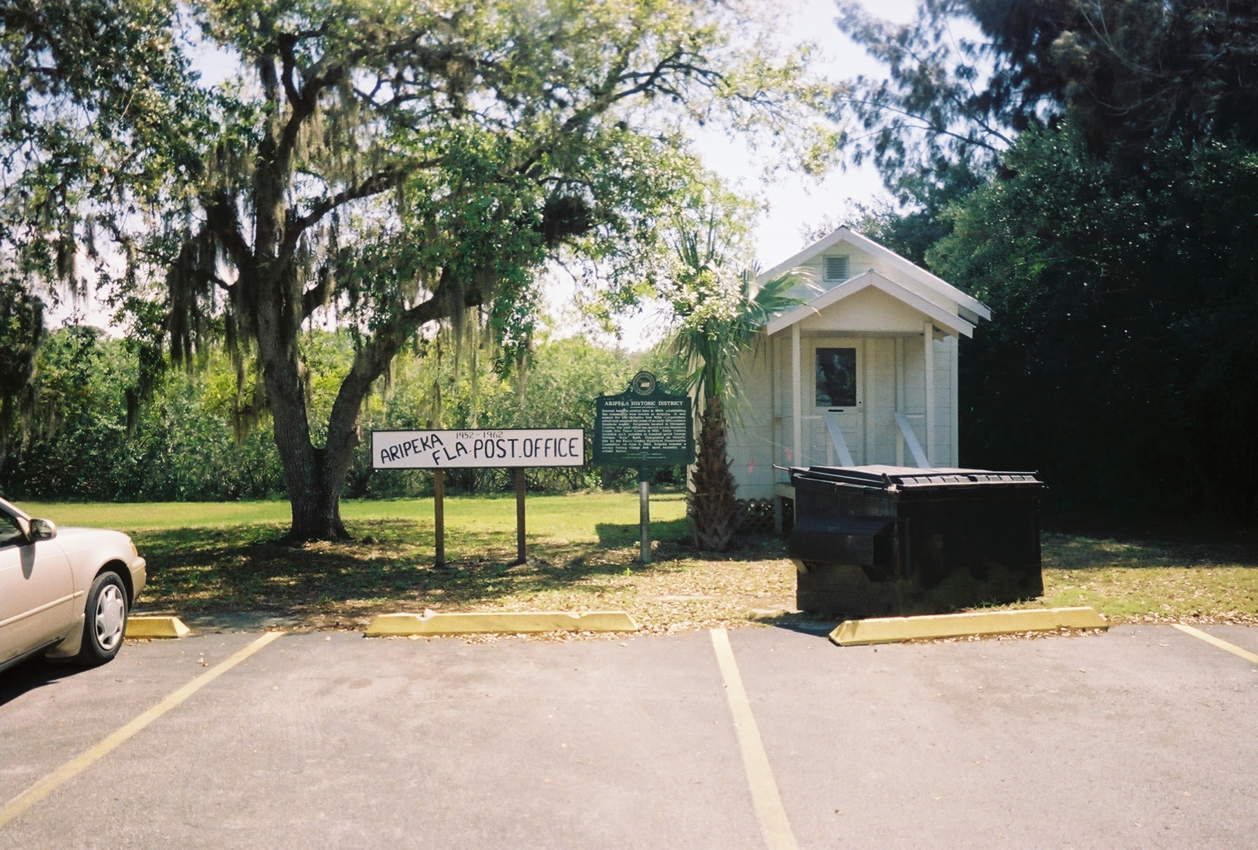 Image of the former Aripeka, Florida Post Office, with a historic plaque. The current Aripeka Post Office is right next door. Both are on the Pasco County side of town.